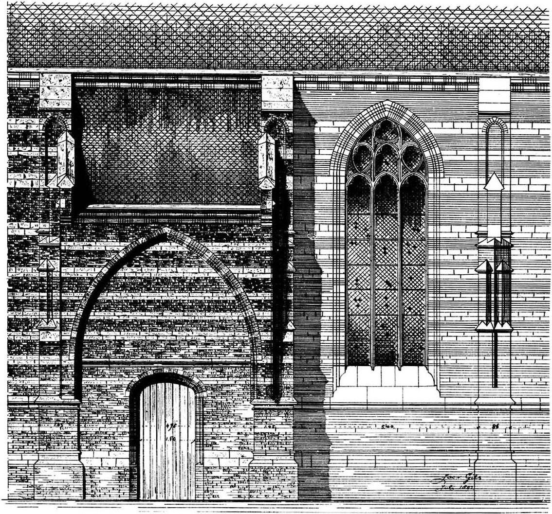 Oirschot church, detail.